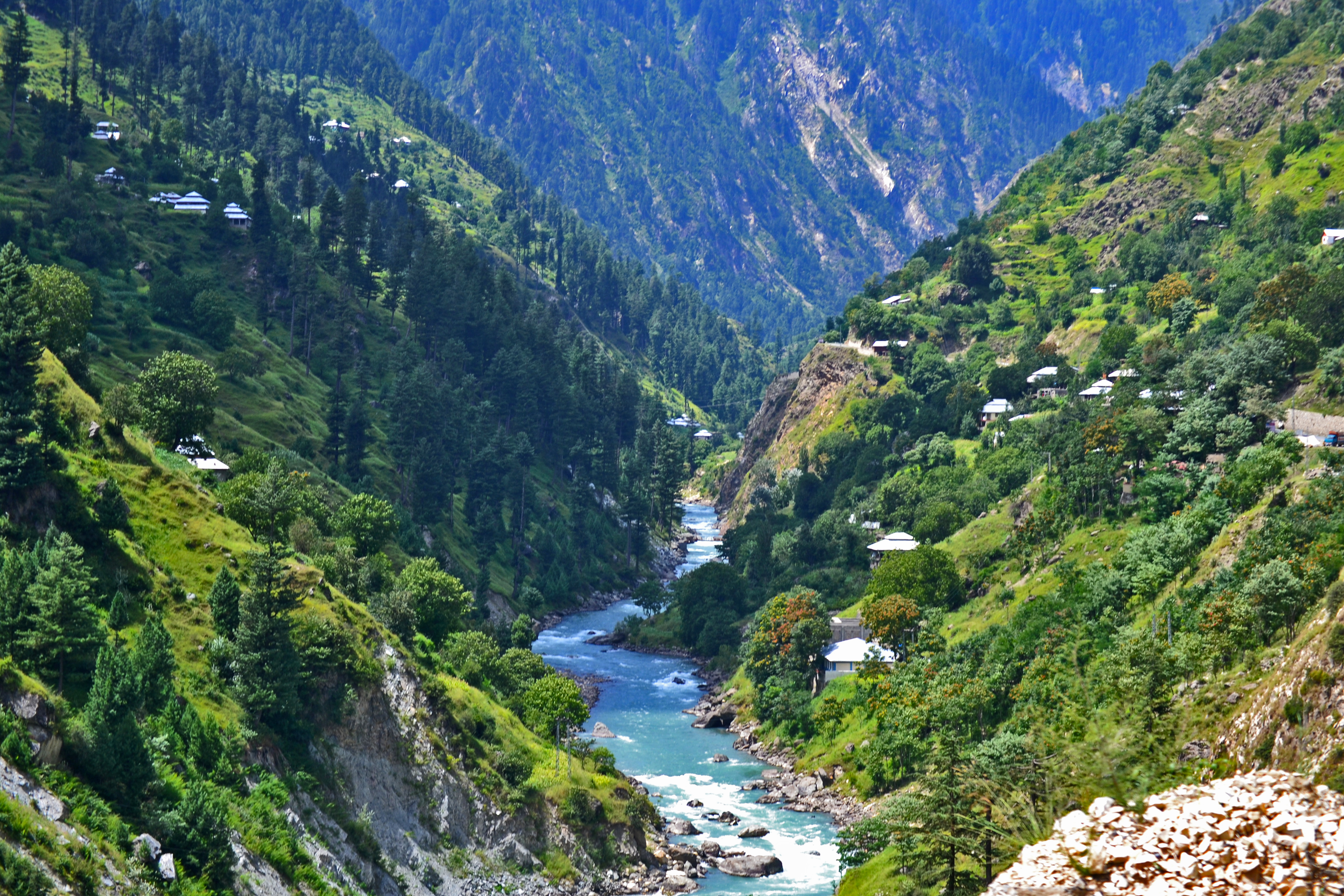 River Kunhar near Paras